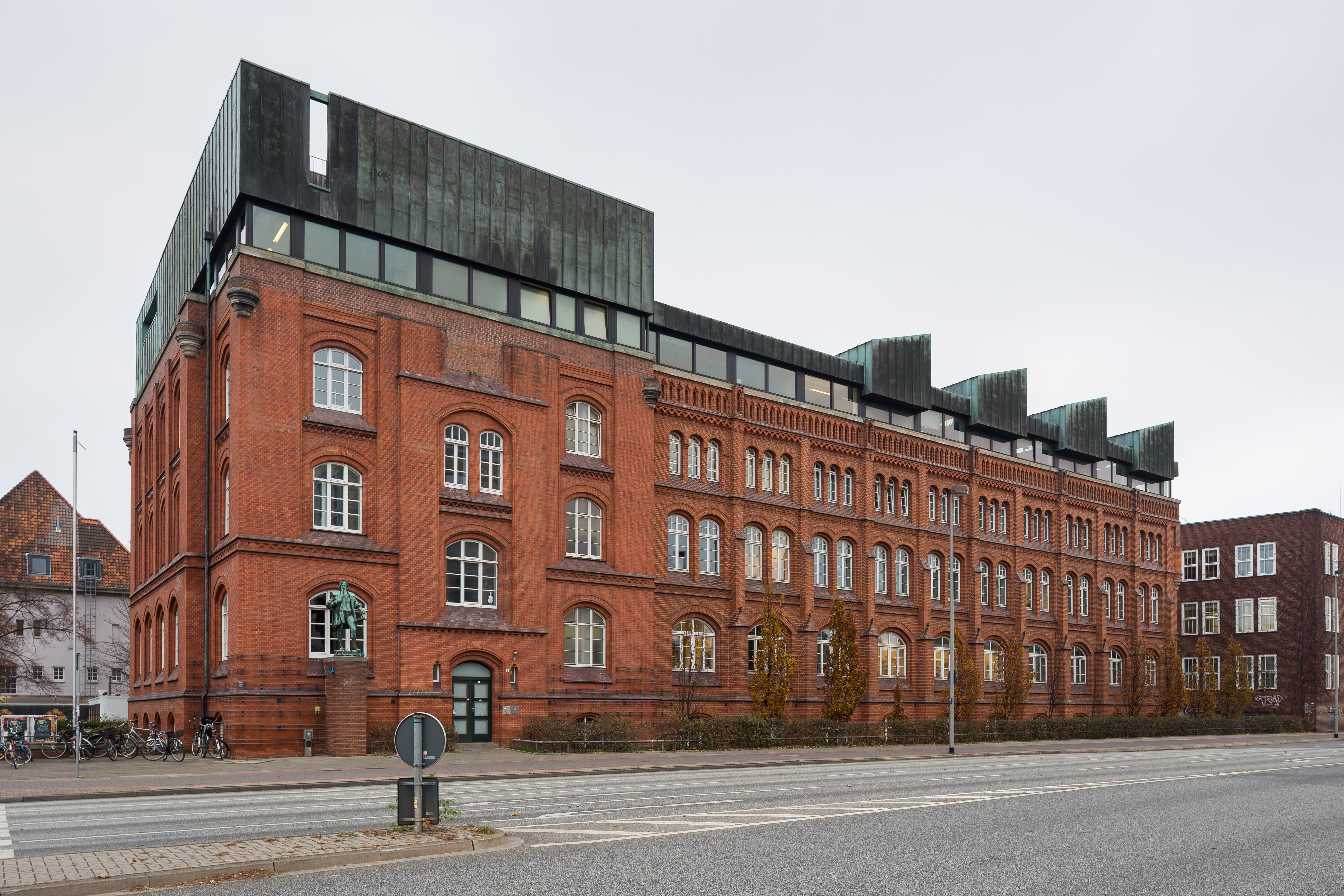 Frühere Druckerei der Firma J. C. König & Ebhardt an der Schlosswender Straße und dem Königsworther Platz in Hannover-Nordstadt. Das Gebäude wird mittlerweile von der Leibniz Universität Hannover genutzt.